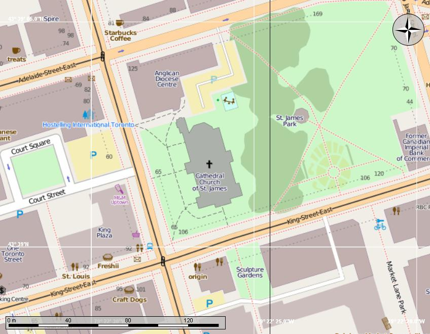 Shows St. James Cathedral Church and the Toronto Sculpture Garden. Map created from the Open Street Map overlay in the Marble program.